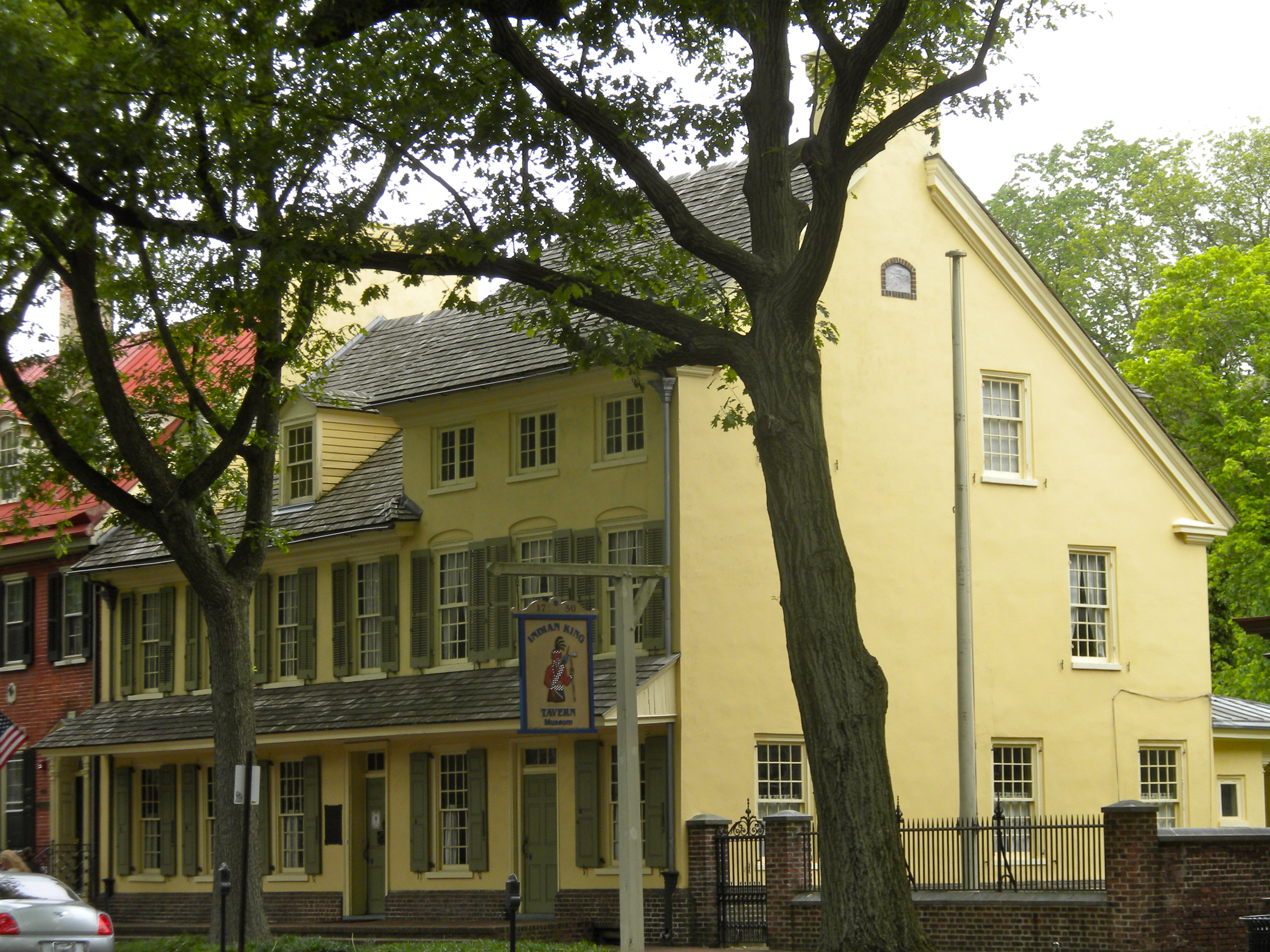 Indian King Tavern on the NRHP since December 18, 1970. At 233 Kings Hwy. E, Haddonfield, New Jersey. Museum in the building where New Jersey "declared independence from Great Britian" (simplified)